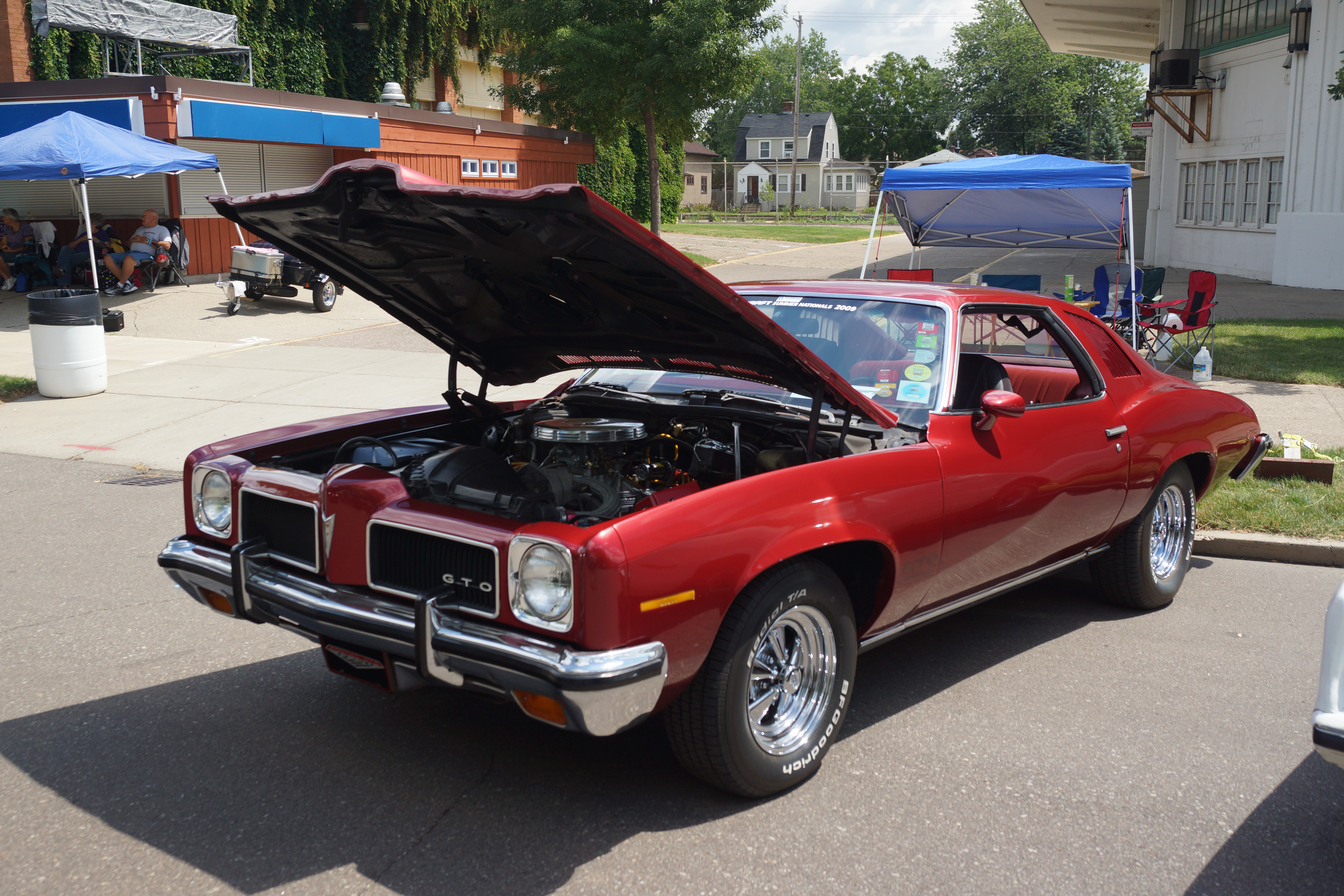 Click here for more car pictures at my Flickr site. O'Reilly Auto Parts Street Machine Summer Nationals Minnesota State Fairgrounds St. Paul, Minnesota July 2016